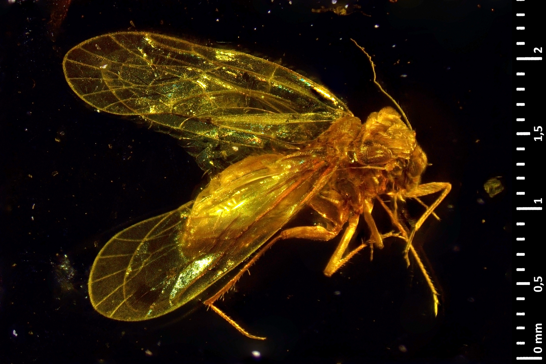 The Burmacompsocus perreaui holotype in Burmese amber, dorsal view. Cenomanian, Cretaceous; Burmese amber, Hukawng Valley, Myanmar Muséum national d'Histoire naturelle specimen MNHN.F.A57551